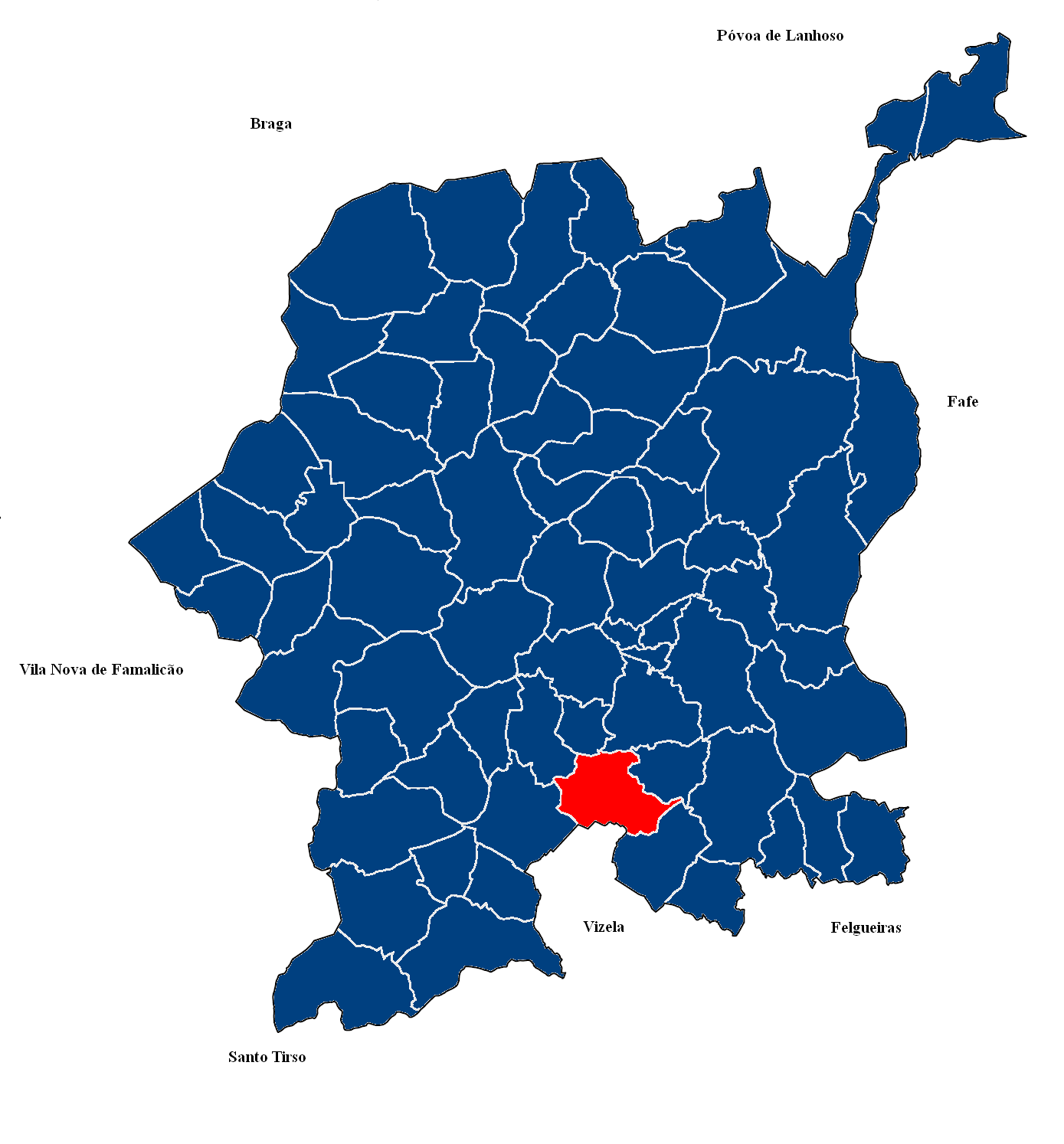 Map of Polvoreira parish, Guimarães Municipality, Portugal